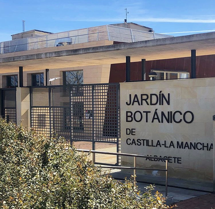 Botanic Gardens of Castilla-La Mancha (Albacete), Spain.